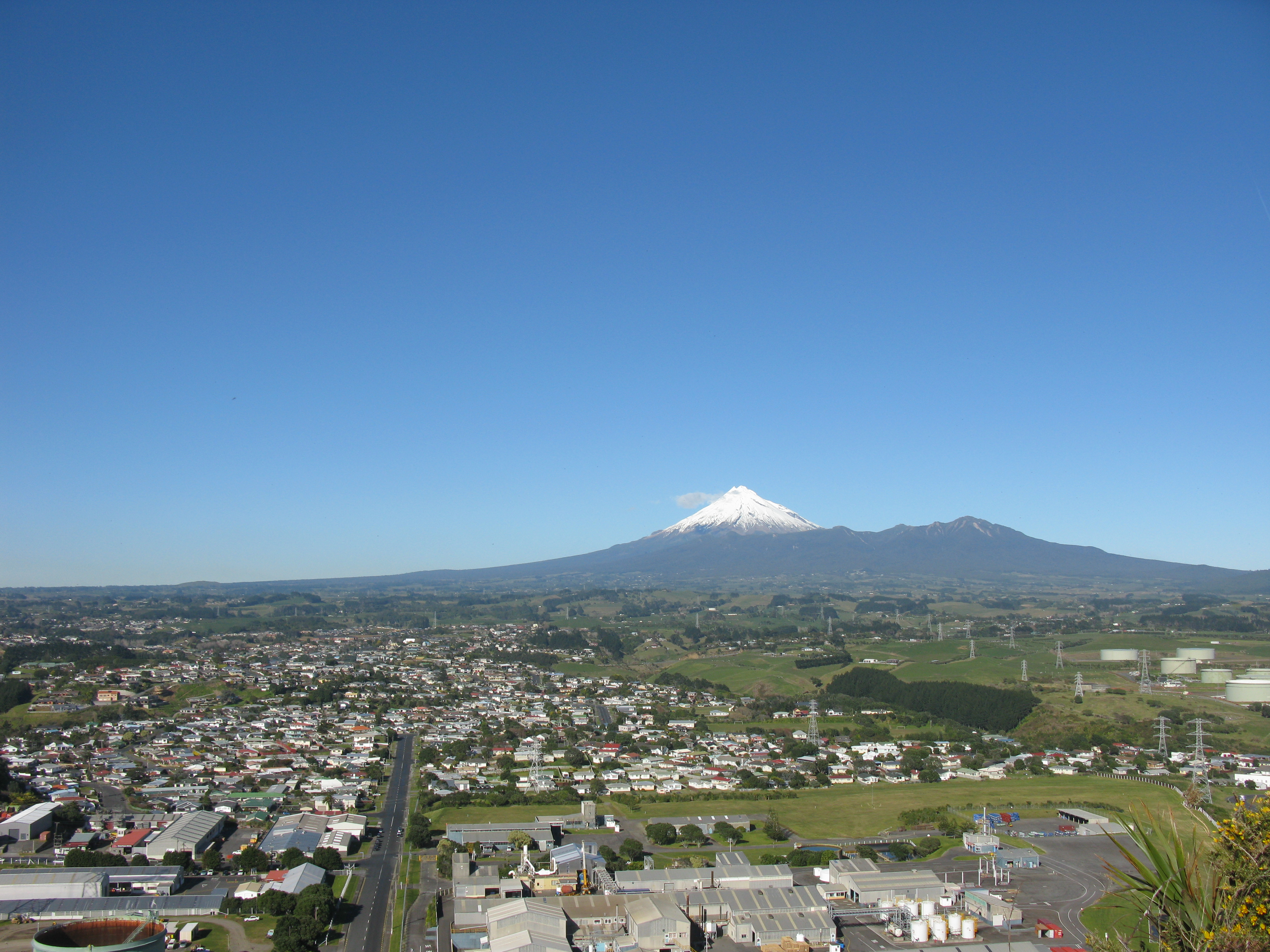 Across New Plymouth to Mt. Taranaki